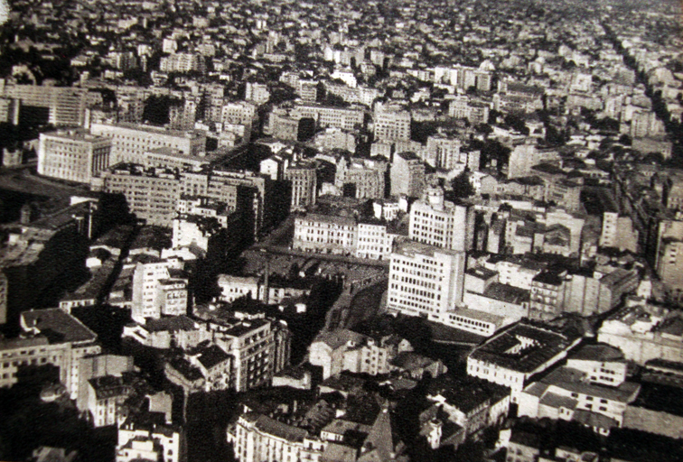 Aerial view of Bucuresti (early 1960)